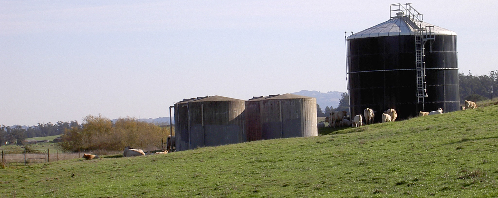 Photo taken by Stephen Gold: looking south from Stony Point Road south of Meecham Road on November 29, 2007. Cropped and level-adjusted using Photoshop Elements.